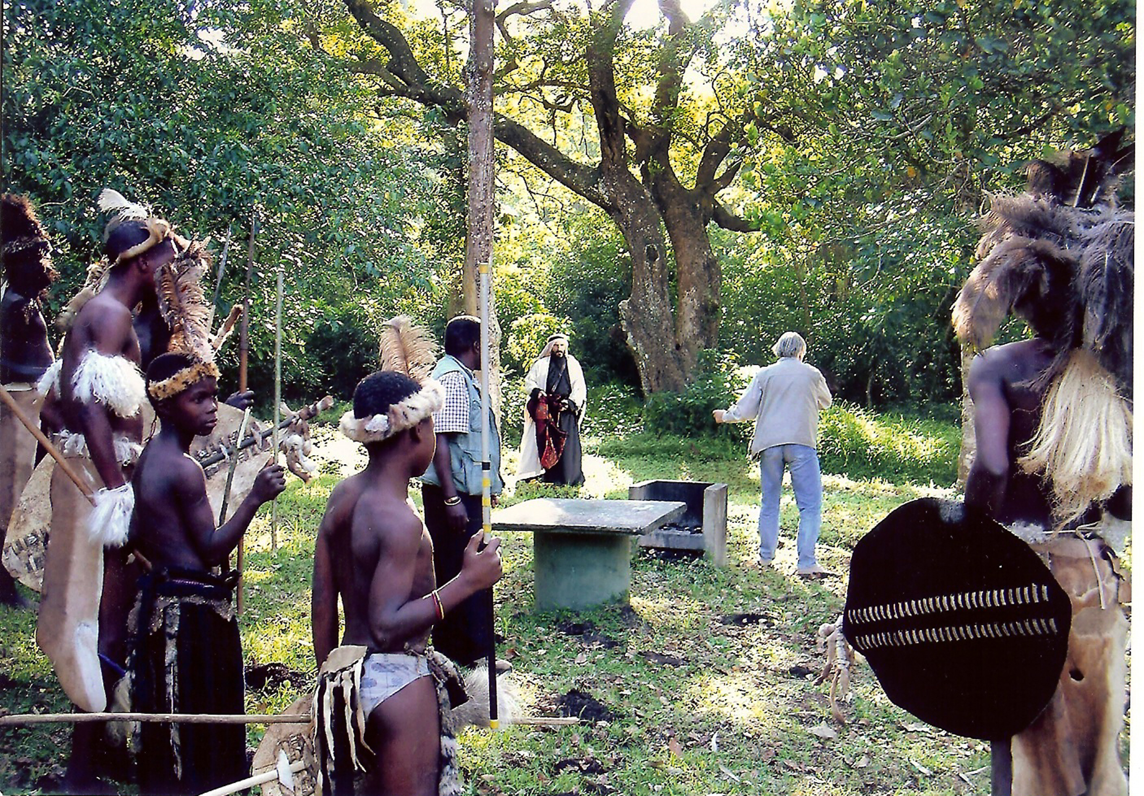 On location in South Africa with the production of the Drama series - The Last Cavalier